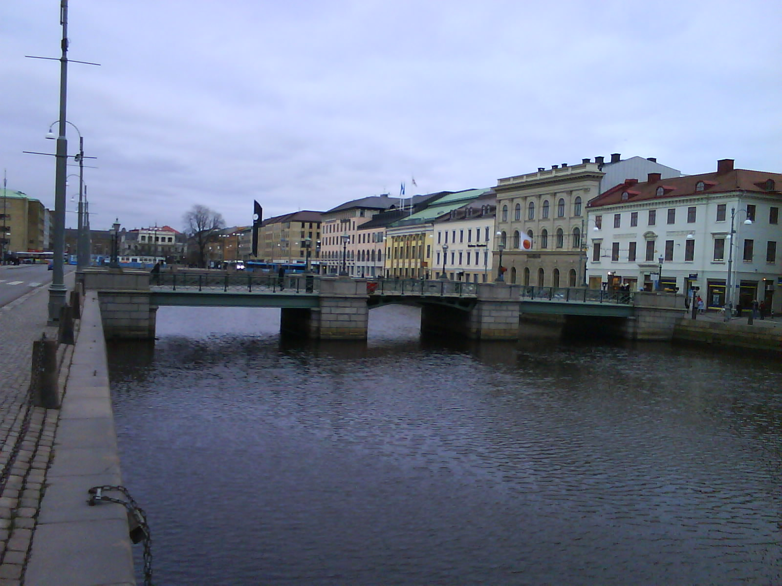 A bridge over Stora Hamnkanalen at Korsgatan and Tyska kyrkan in Gothenburg, Sweden.